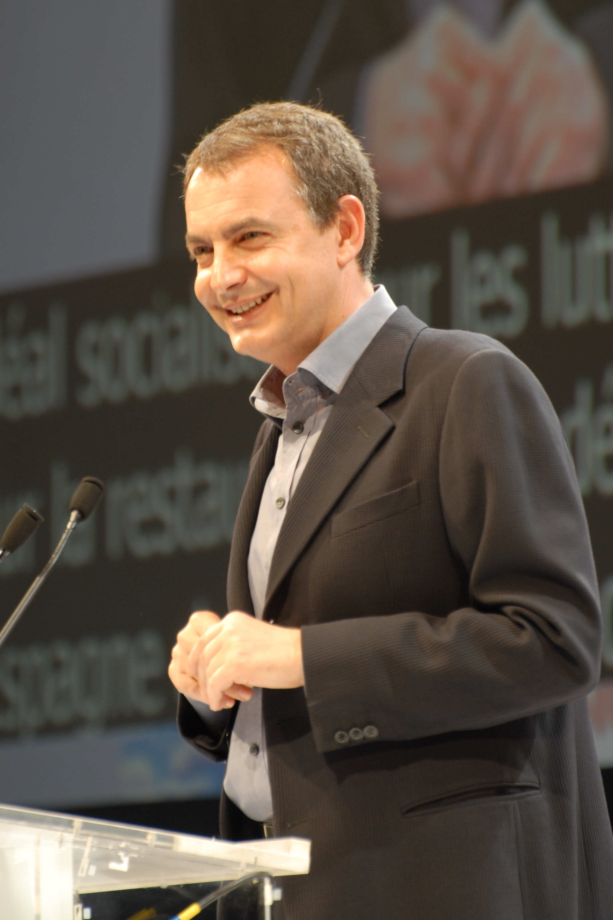 José Luis Rodríguez Zapatero during his meeting in Toulouse on April, 19th 2007 for the 2007 presidential election.